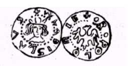 Denarius from the times of the Władysław Łokietek